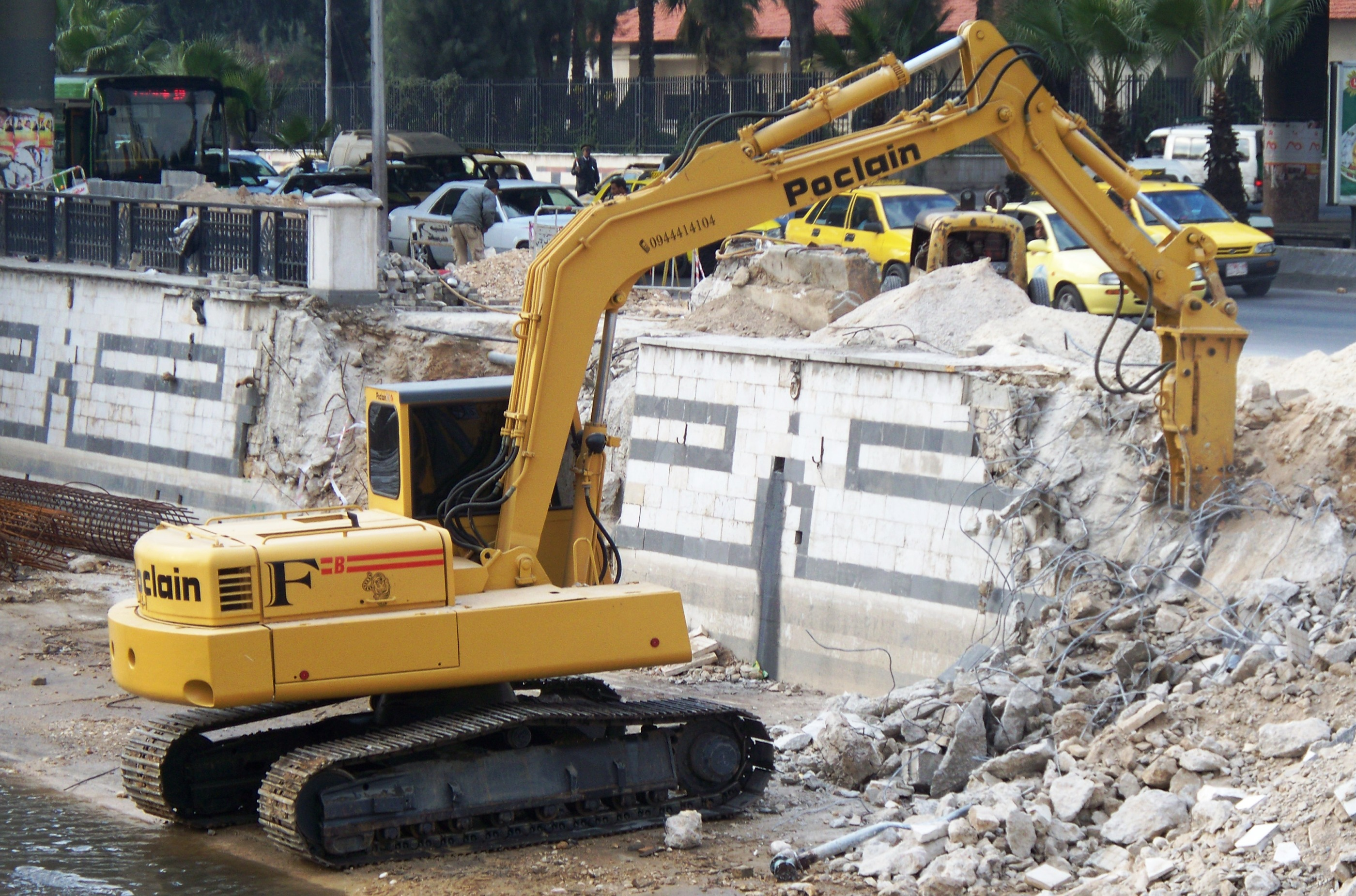 A Poclain excavator in Damascus, Syria.